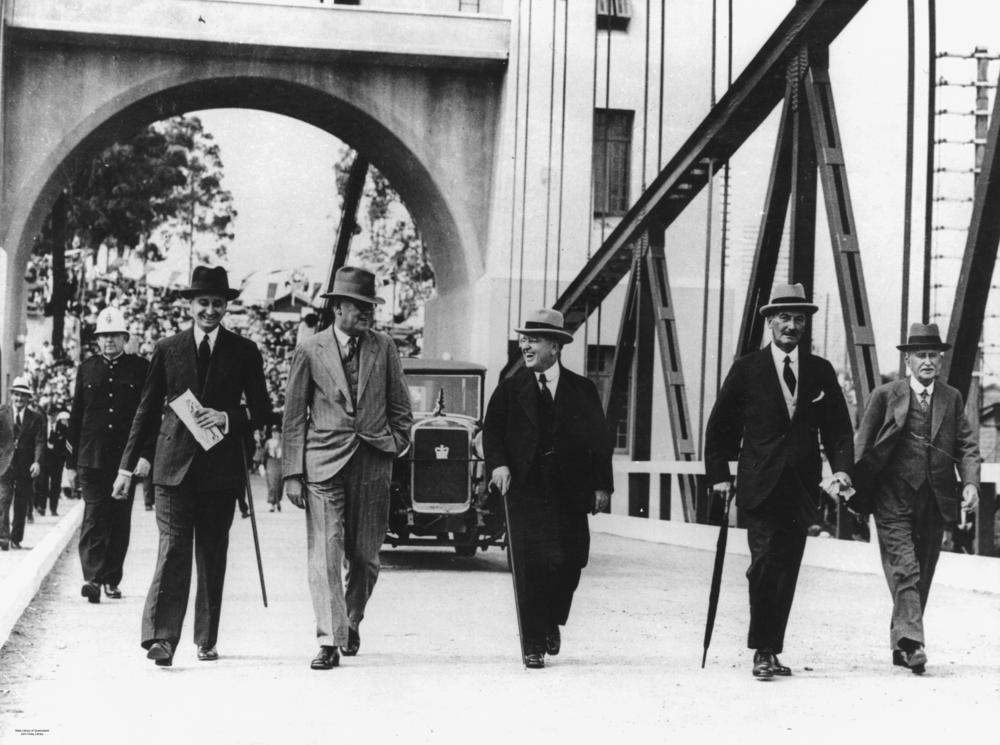 Official opening of the Indooroopilly Toll Bridge, Brisbane, 1936 This suspension bridge spans the Brisbane River, connecting Indooroopilly to Chelmer. Walter Taylor was the driving force behind the contruction of the bridge, being promotor, constructor and engineer of the company which was formed. The bridge was named after Walter Taylor in April 1956. An important historical feature of the bridge is that it re-uses as cables the wire ropes used initially in the erection of the Sydney Harbour Bridge. Construction began early in 1932 and the bridge was officially opened on February 14, 1936. The toll was removed in October 1965. [Information taken from: C O'Connor, Walter Taylor Bridge, 1998] For many years people lived in the towers at either end of the bridge. This image shows the Governor of Queensland, Sir Leslie Orme Wilson, and the official party crossing the bridge. Walter Taylor is at the far right.